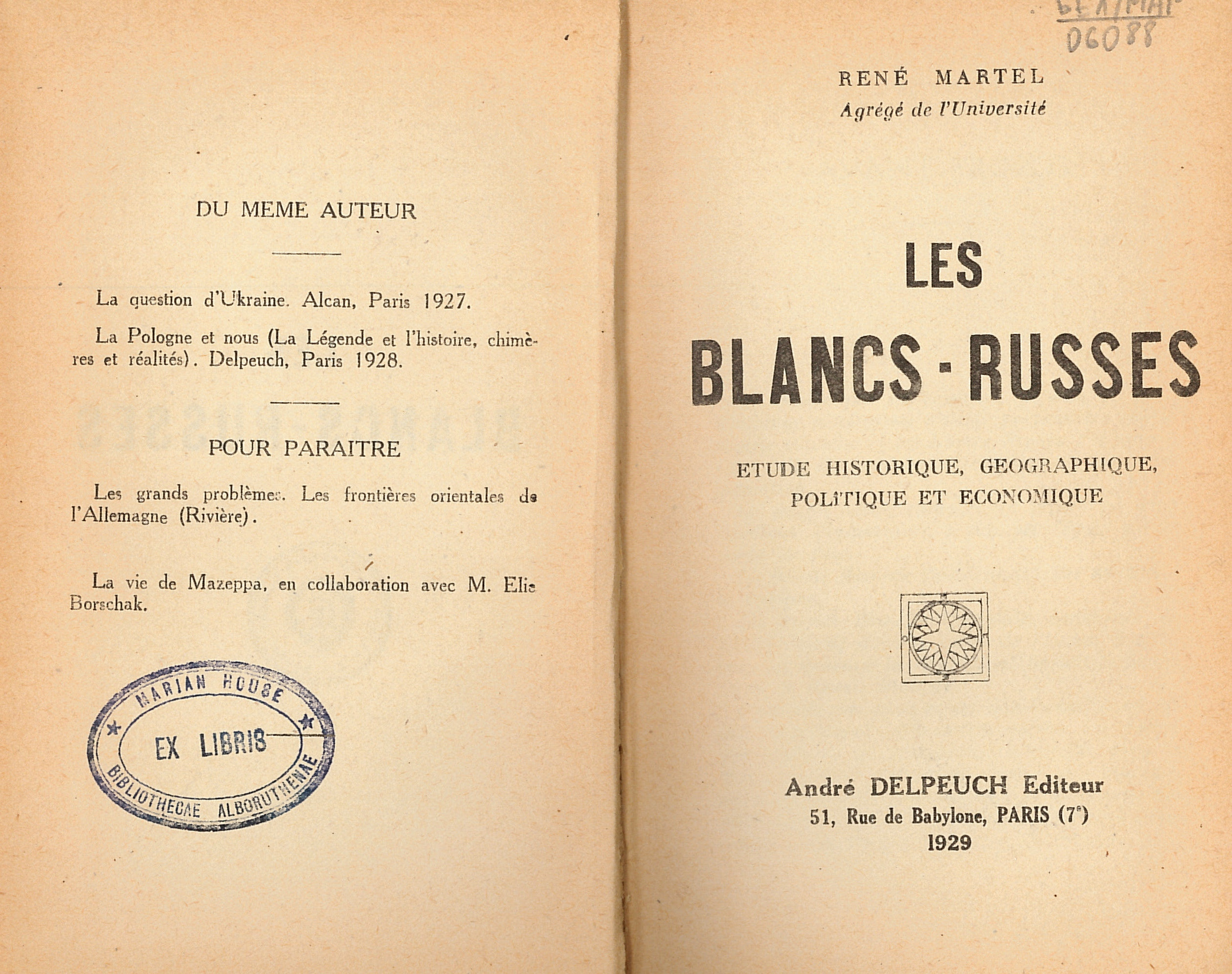 Title page of René Martel's Les Blancs-Russes. Made from a copy preserved at the Francis Skaryna Belarusian Library and Museum, London. Беларуская (тарашкевіца): Тытульная старонка кнігі Рэнэ Мартэля "Les Blancs-Russes". Зроблена з асобніка, які захоўваецца ў Беларускай бібліятэцы і музэі імя Францішка Скарыны ў Лёндане.